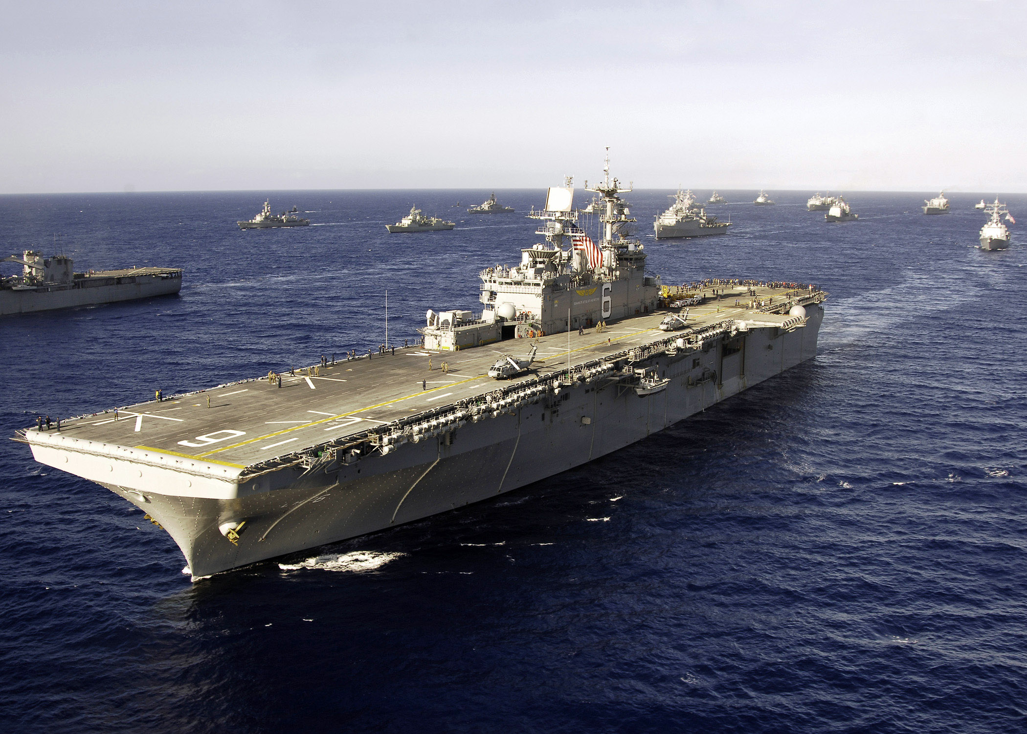 The Wasp-class Amphibious Assault Ship USS Bonhomme Richard (LHD-6) sails in formation with ships and submarines from the U.S. Navy as well as the Navies of the seven other nations. To commemorate the last day of the 2006 Rim of the Pacific (RIMPAC) exercise, participating country's naval vessels fell into ranks for a photo exercise. RIMPAC trains U.S. allied forces to be interoperable and ready for a wide range of potential combined operations and missions. Eight nations participated in RIMPAC, the world's largest biennial maritime exercise. Conducted in the waters off Hawaii, RIMPAC brings together military forces from Australia, Canada, Chile, Peru, Japan, the Republic of Korea, the United Kingdom and the United States.